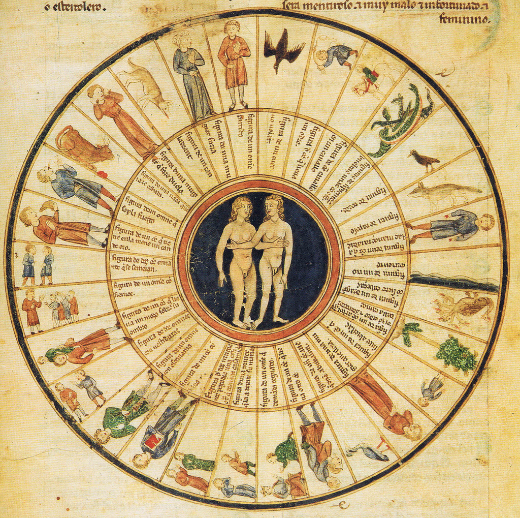 Illustration from a medieval Spanish language astrology textbook attributed to Alfonso X the Wise. The image is meant to depict the effect various other stars or constellations have in concert with Gemini.